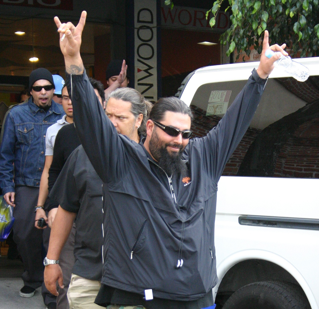 Stephen Carpenter of the band Deftones